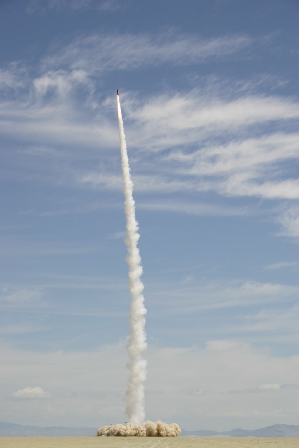 The "CSXT Space Shot 2004" by the Civilian Space eXploration Team (CSXT) was the first amateur rocket launch to space. The rocket launched at 11:12AM US Pacific Time on May 17, 2004 at the Black Rock Desert in northwestern Nevada. (An amateur rocket means everyone working on it did so as a volunteer.) The rocket reached an altitude of 72 miles (115 km), the first amateur rocket to exceed the Karman Line of 62.1 miles (100 km) required to claim a space flight.